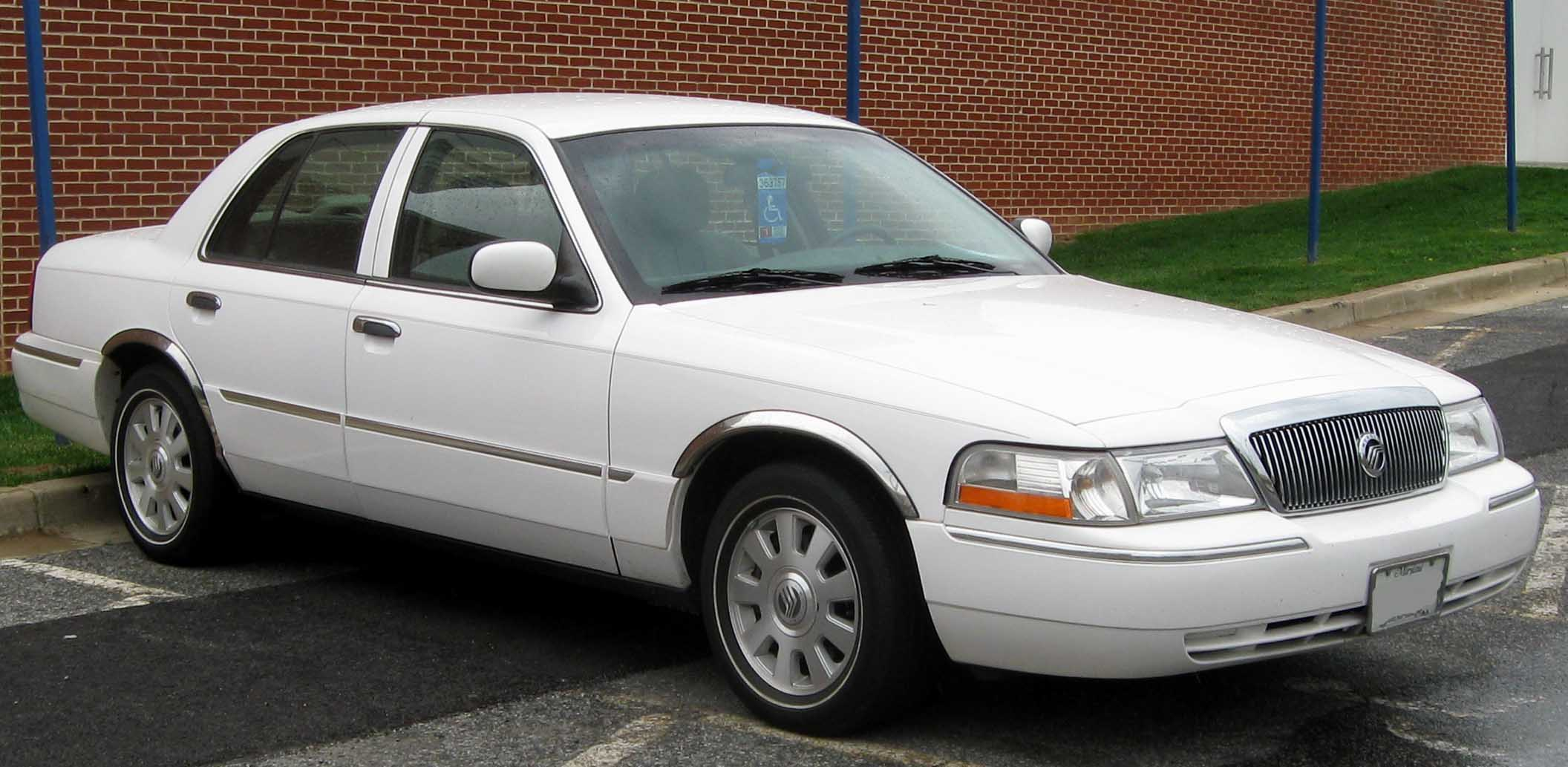 2003-2005 Mercury Grand Marquis photographed in College Park, Maryland, USA.